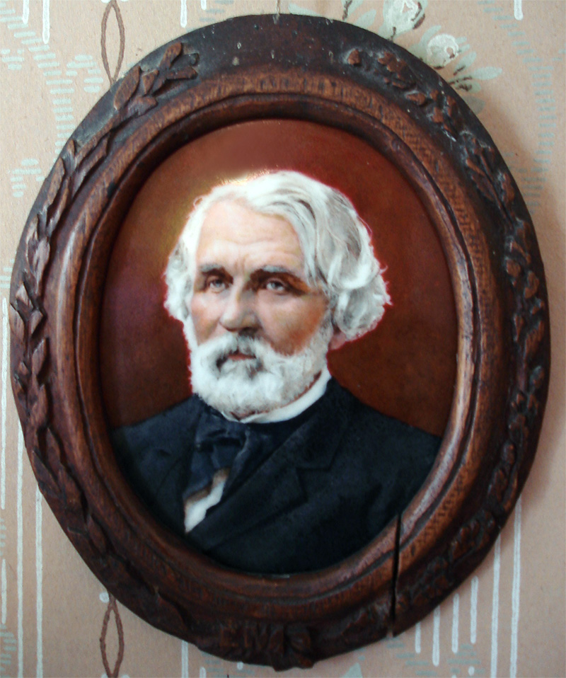 Portrait of Ivan Turgenev painted from memory by Julia Phominichna (it's said that the frame to the portrait was carved from wood by Ivan Vasilievich, her husband). Julia Phominichna (nee Okulich-Kazarina) is grandmother of Zoya Rozhdestvenskaya.